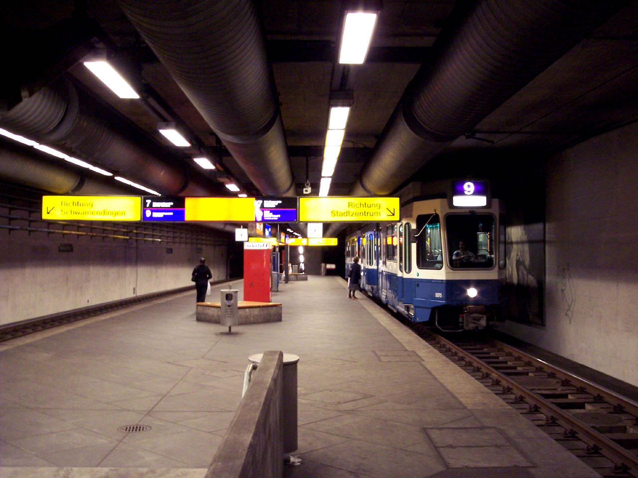 Trams in Zürich: A route 9 tram stops at Waldgarten station in the tram tunnel between Milchbuck and Schwamendingen. This tunnel was built with central platforms as it was intended for a metro that was never built. It was given over to trams, running on the left to utilise the platforms.